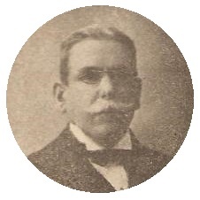 José Ignacio S. de Urbina